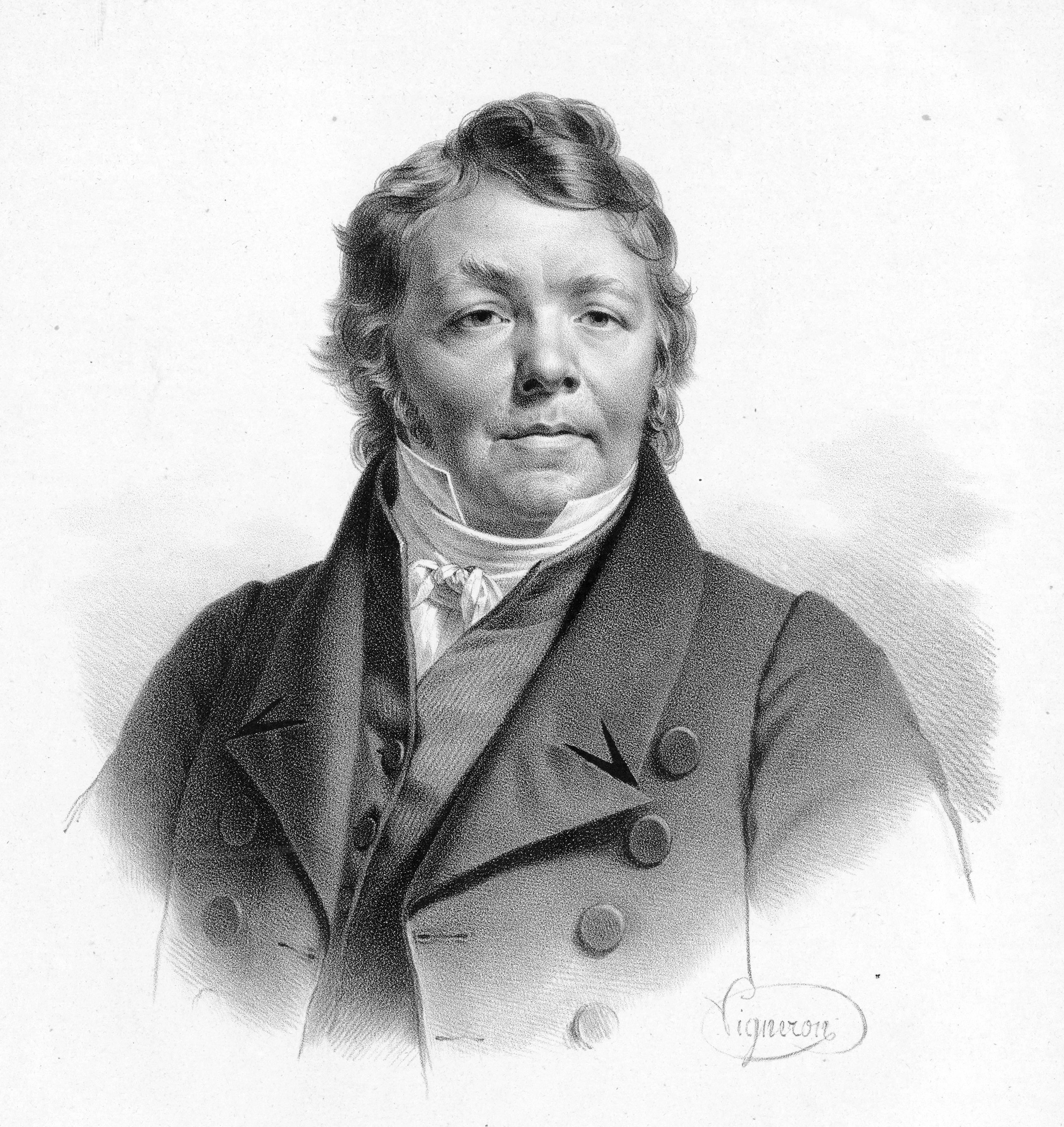 Depicted person: Johann Nepomuk Hummel